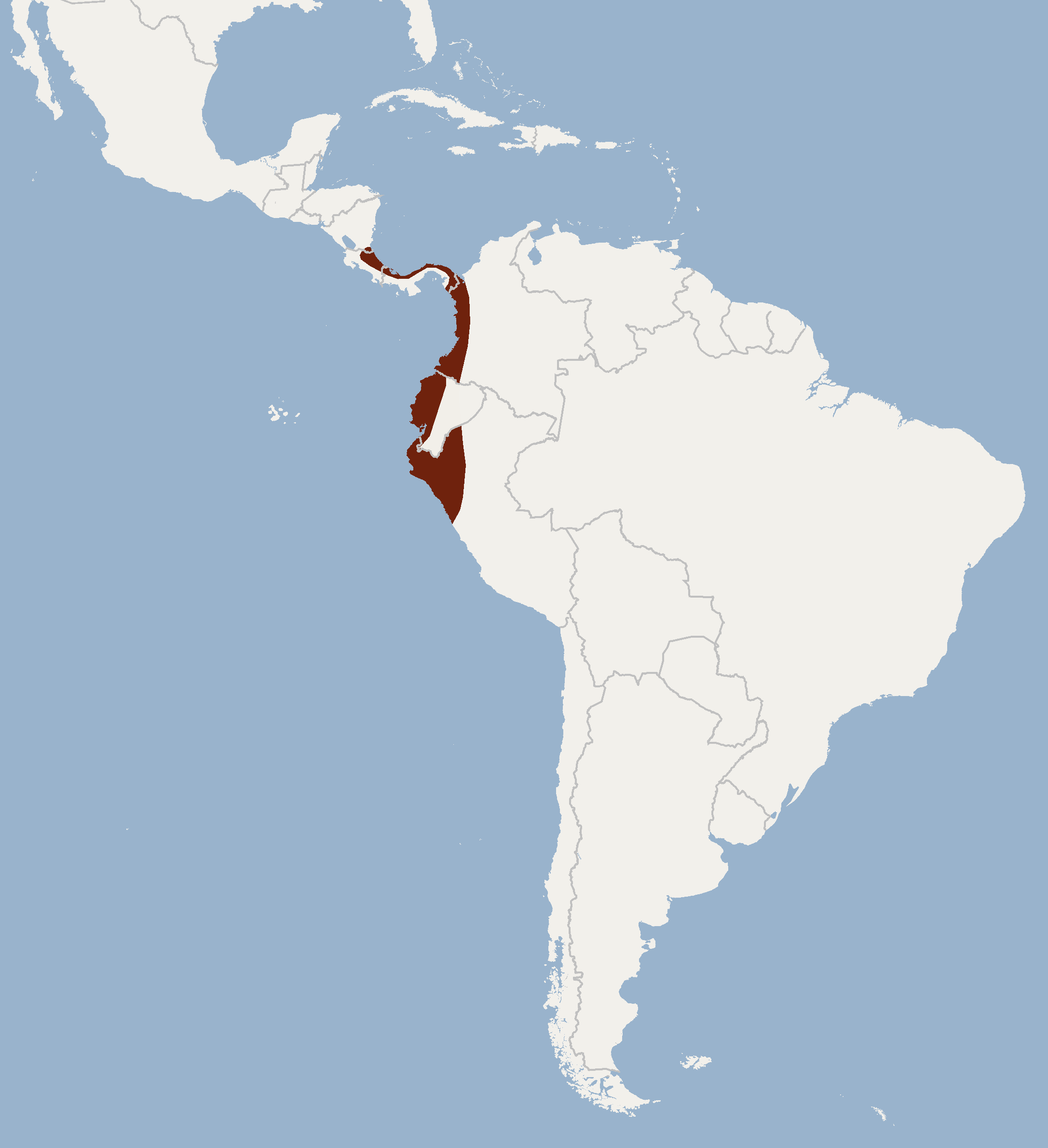 According to Gardner, 2008 & Reid, 2008